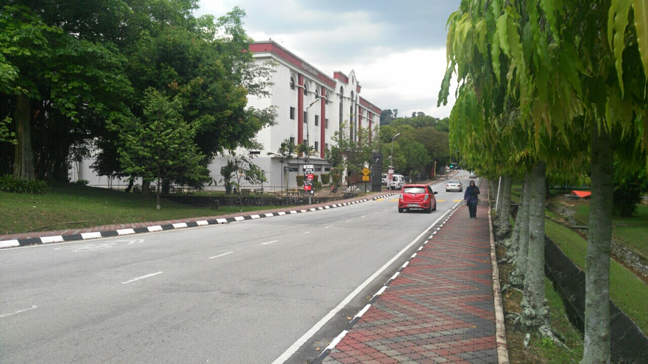 A view of the south and east faces of the University of Malaya's library building.